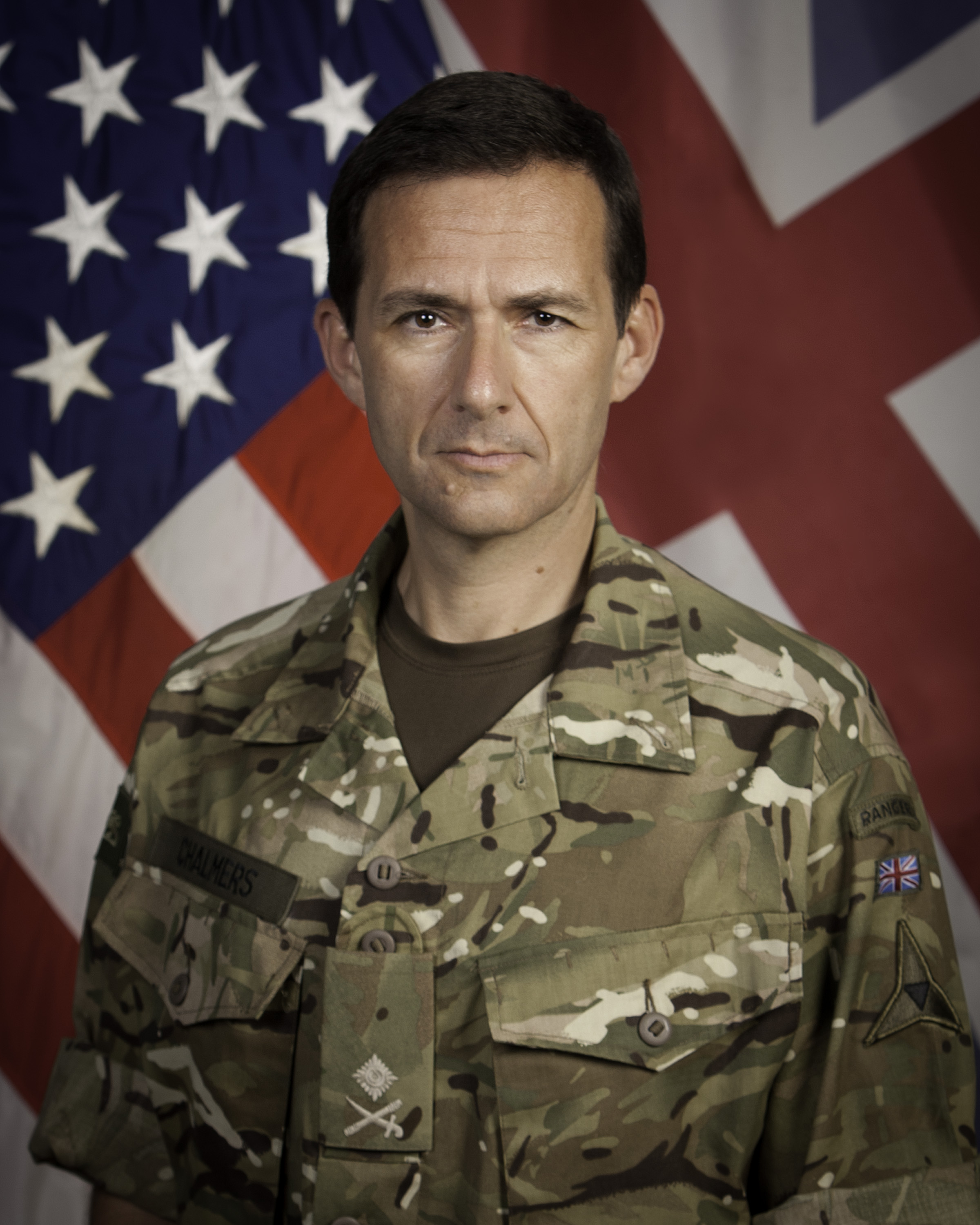 Maj. Gen. Douglas M. Chalmers